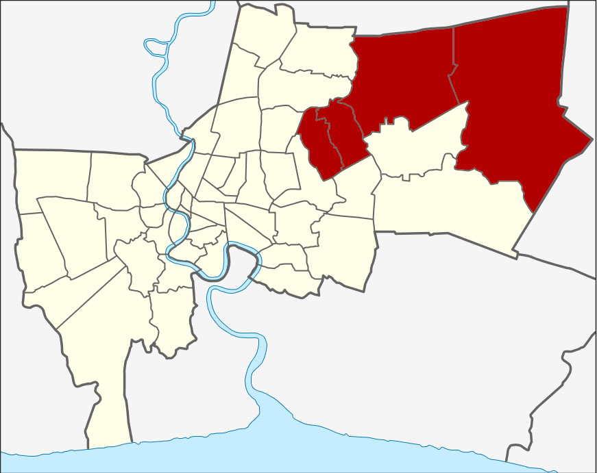 Bangkok 2007 Election Zone 6